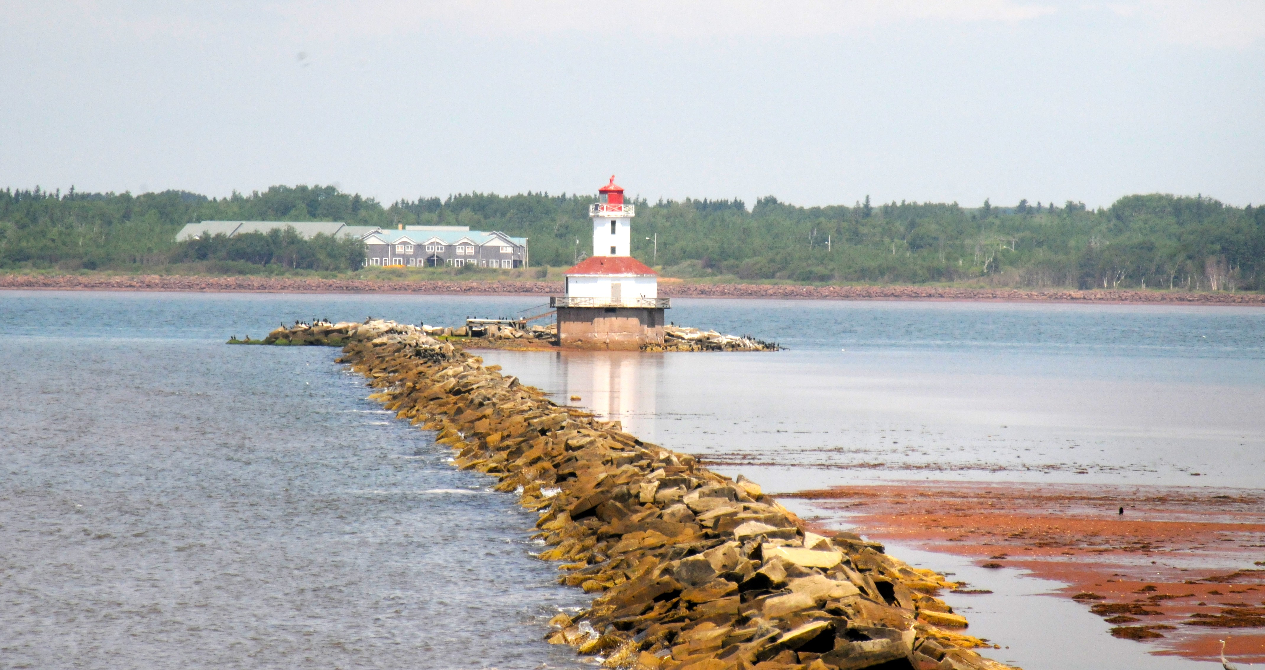 Entrance to Summerside Harbour, Indian Spit Light, Prince Edward Island, Canada